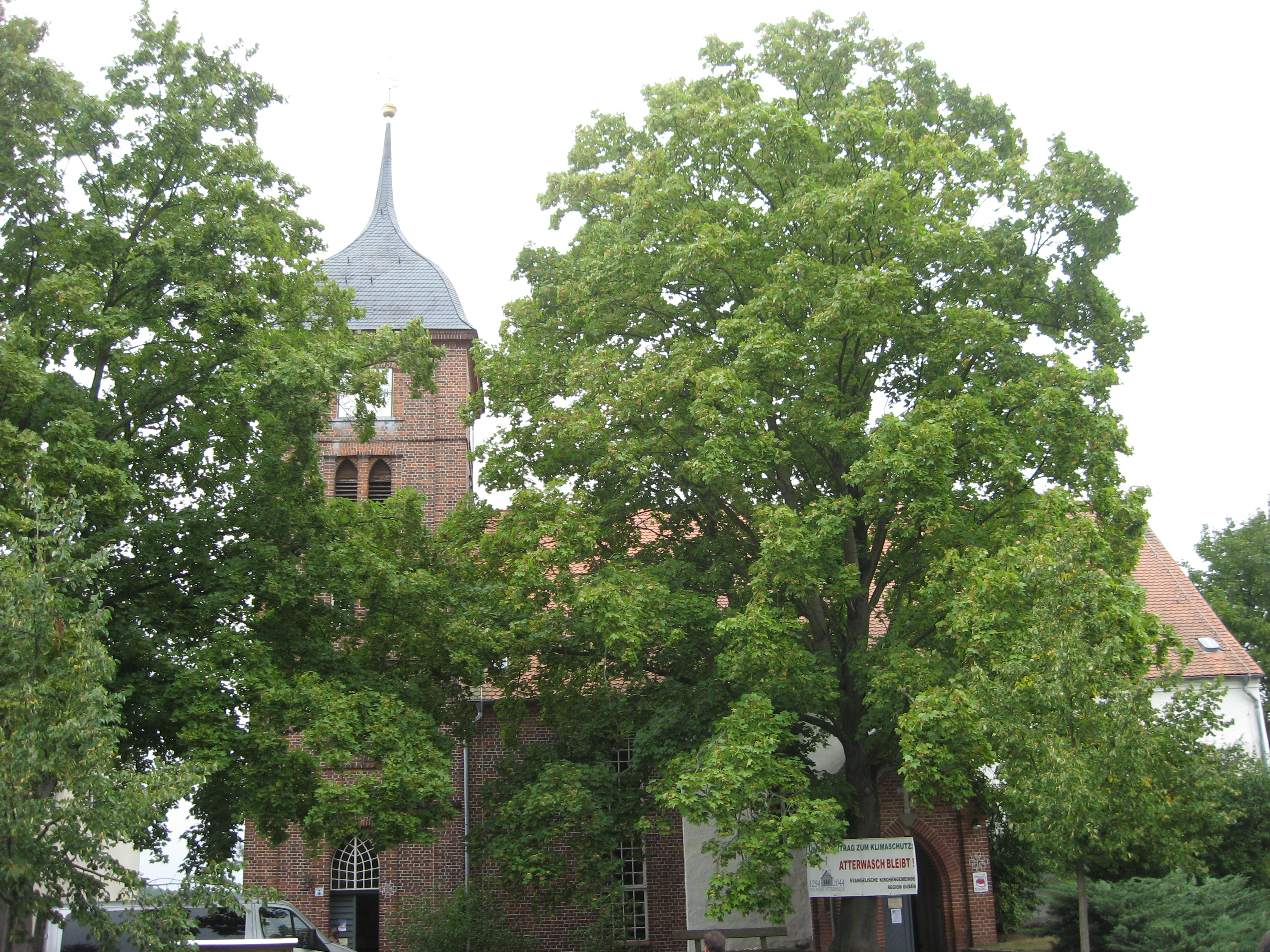 The village church of Atterwasch, Brandenburg, Germany.